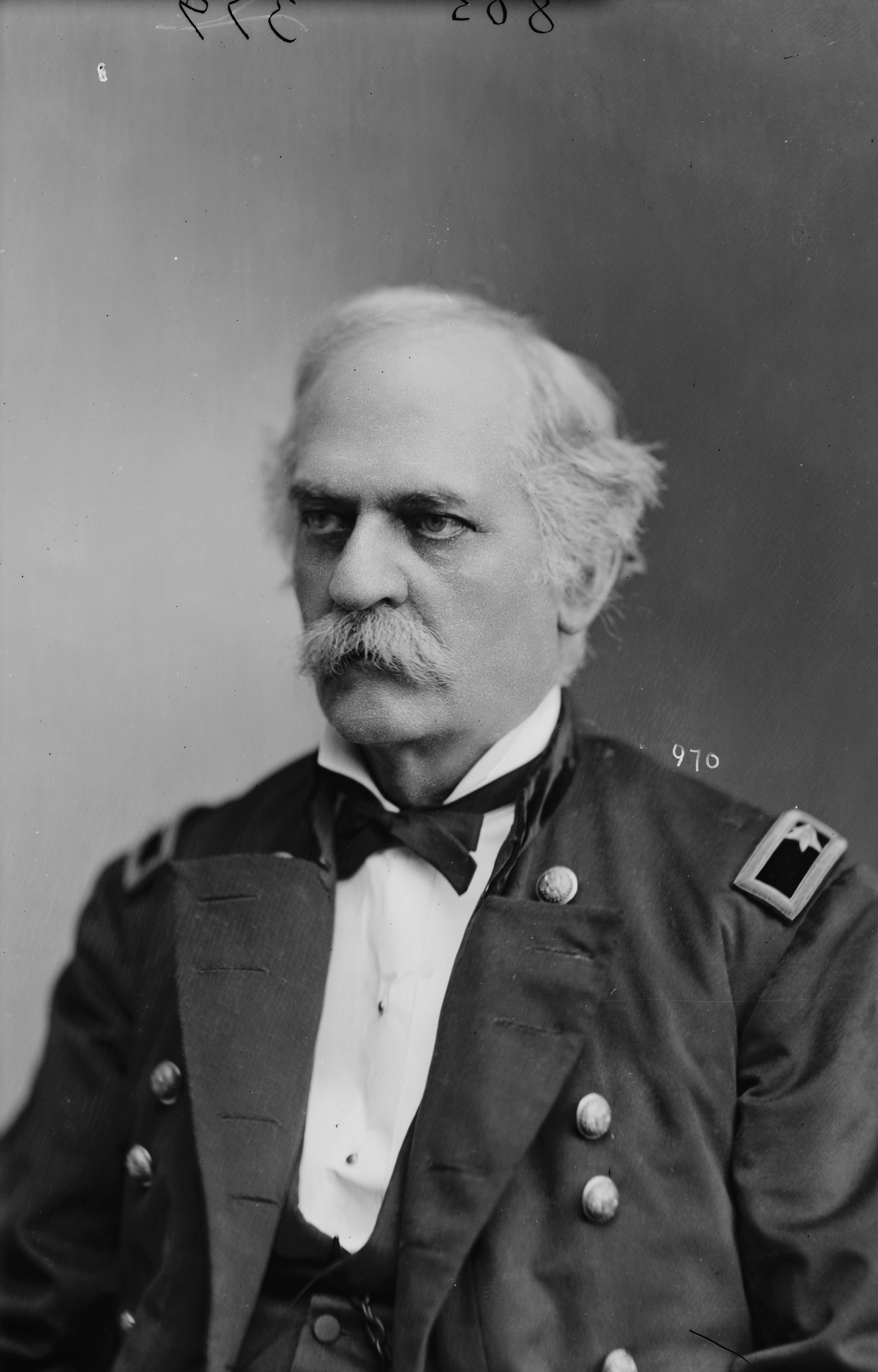 Benjamin Alvord (mathematician). Library of Congress description: "Alvord, General Benjamin of Vermont, U.S.A. Commanded District of Oregon throughout war".